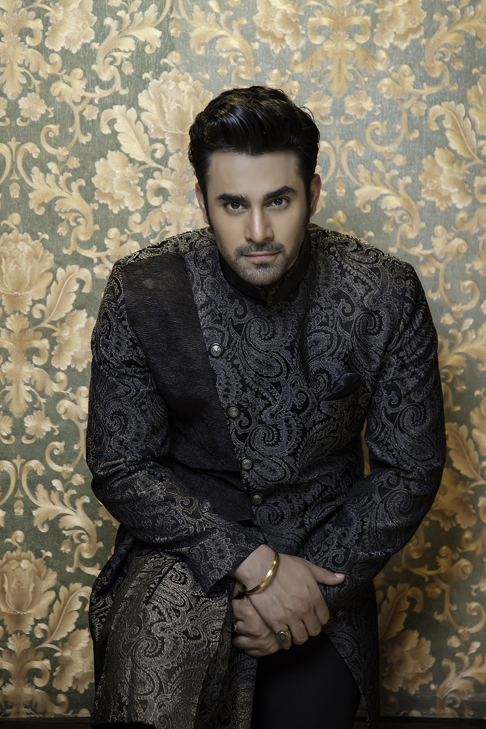 Sajid shahid Clicked Actor Pearl V Puri in Delhi.